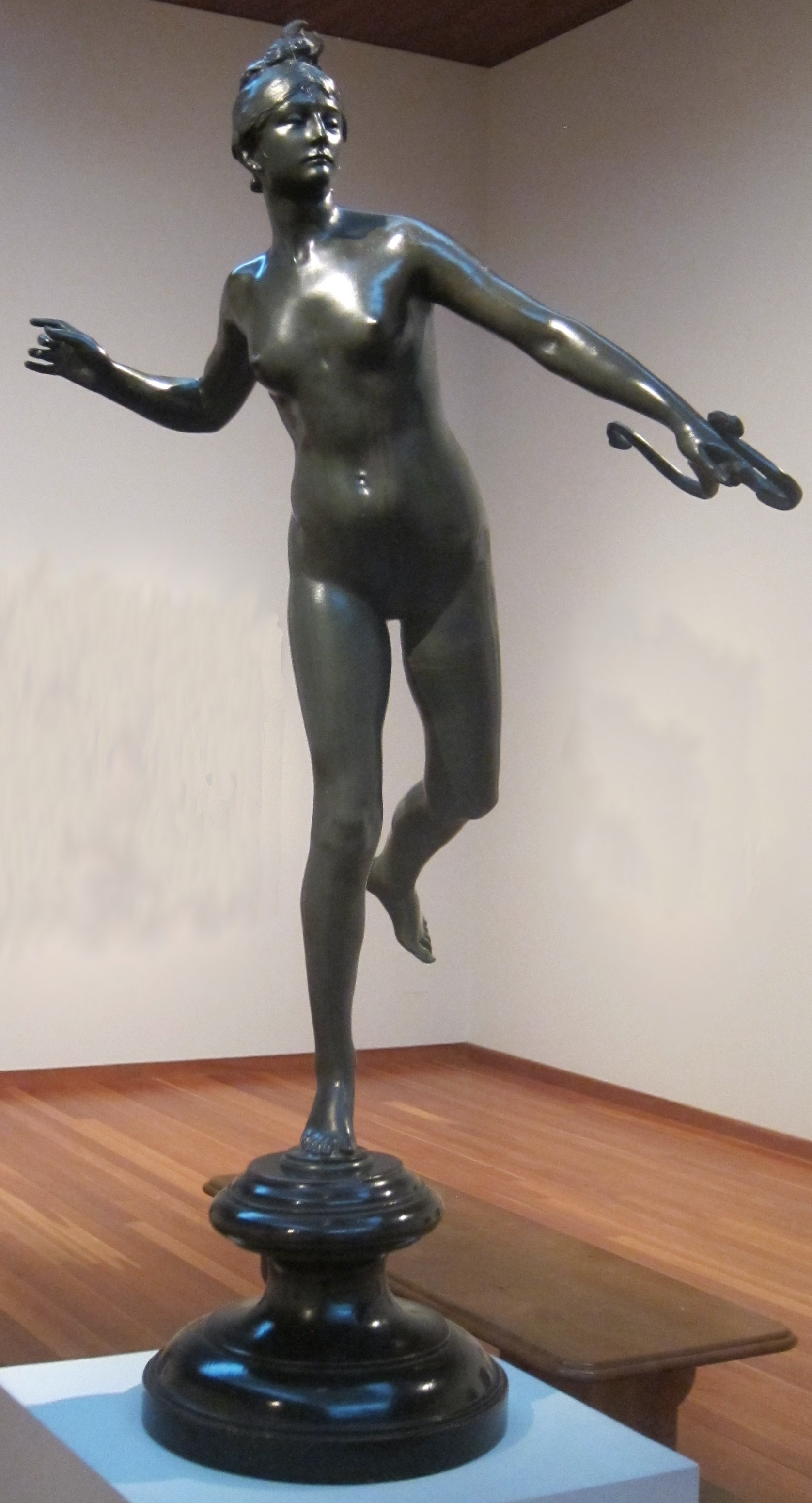 Diana, bronze sculpture by Frederick William MacMonnies, 1889, De Young Museum